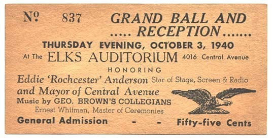 Ticket for reception at the Central Avenue Elks Club in Los Angeles. Copyright details There are no copyright markings on the ticket, which was produced for admission to the local Elks' Club reception for Eddie 'Rochester' Anderson. The item can be dated by the date the ticket was valid-3 October 1940. From Cornell University: Cornell University The Cornell information indicates this image is in the public domain: "For works first registered or publisher in the US: "1923 through 1977 "Published without a copyright notice "None. In the public domain due to failure to comply with required formalities."